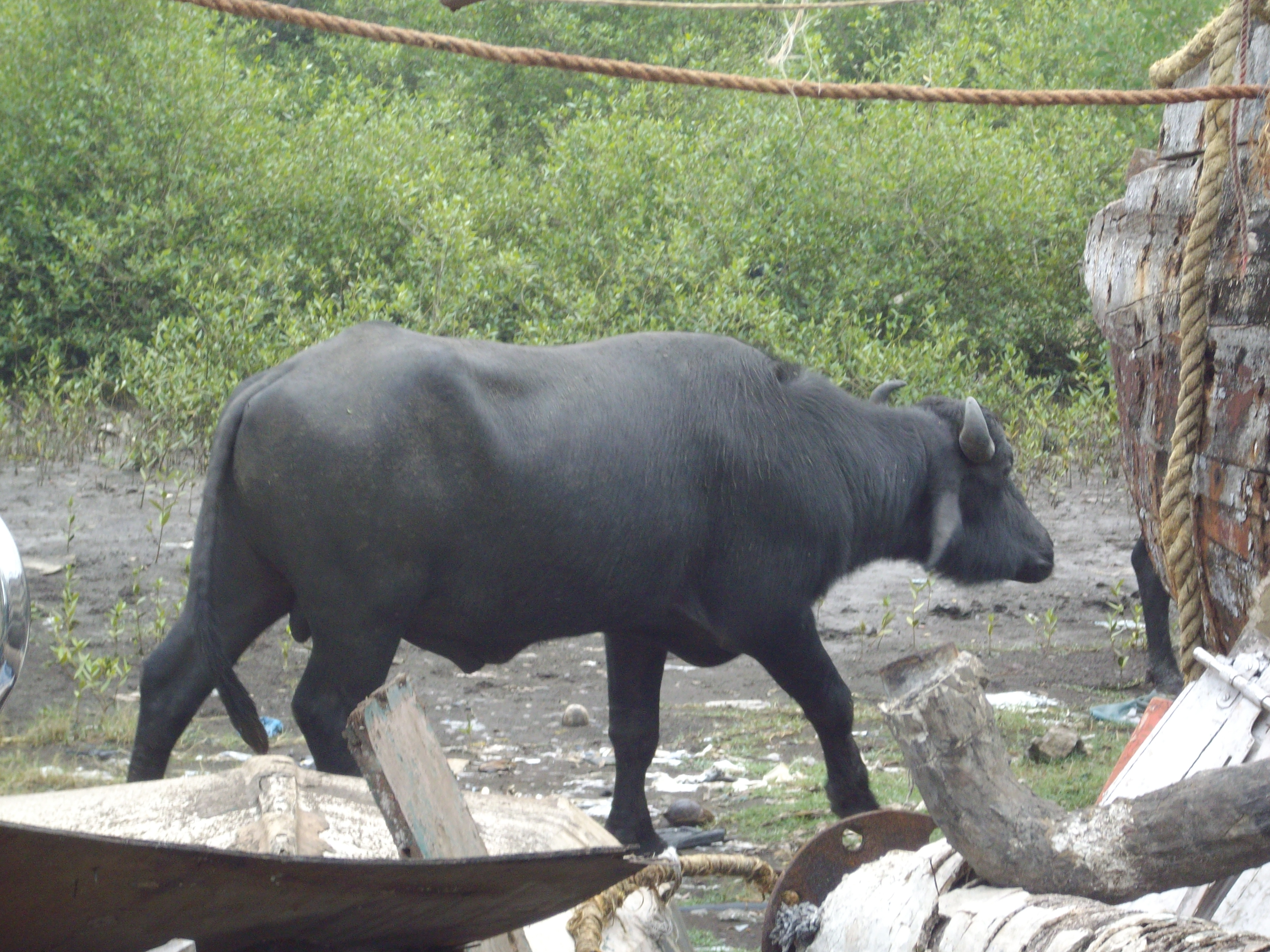 A beautiful non-castrated male buffalo in prime physical condition.This buffalo chrged me while i attempted "Shooting" it from the front, scared of my camera, rather than the red shirt i was wearing as they are "Colour Blind".I later photographed it from a distance.